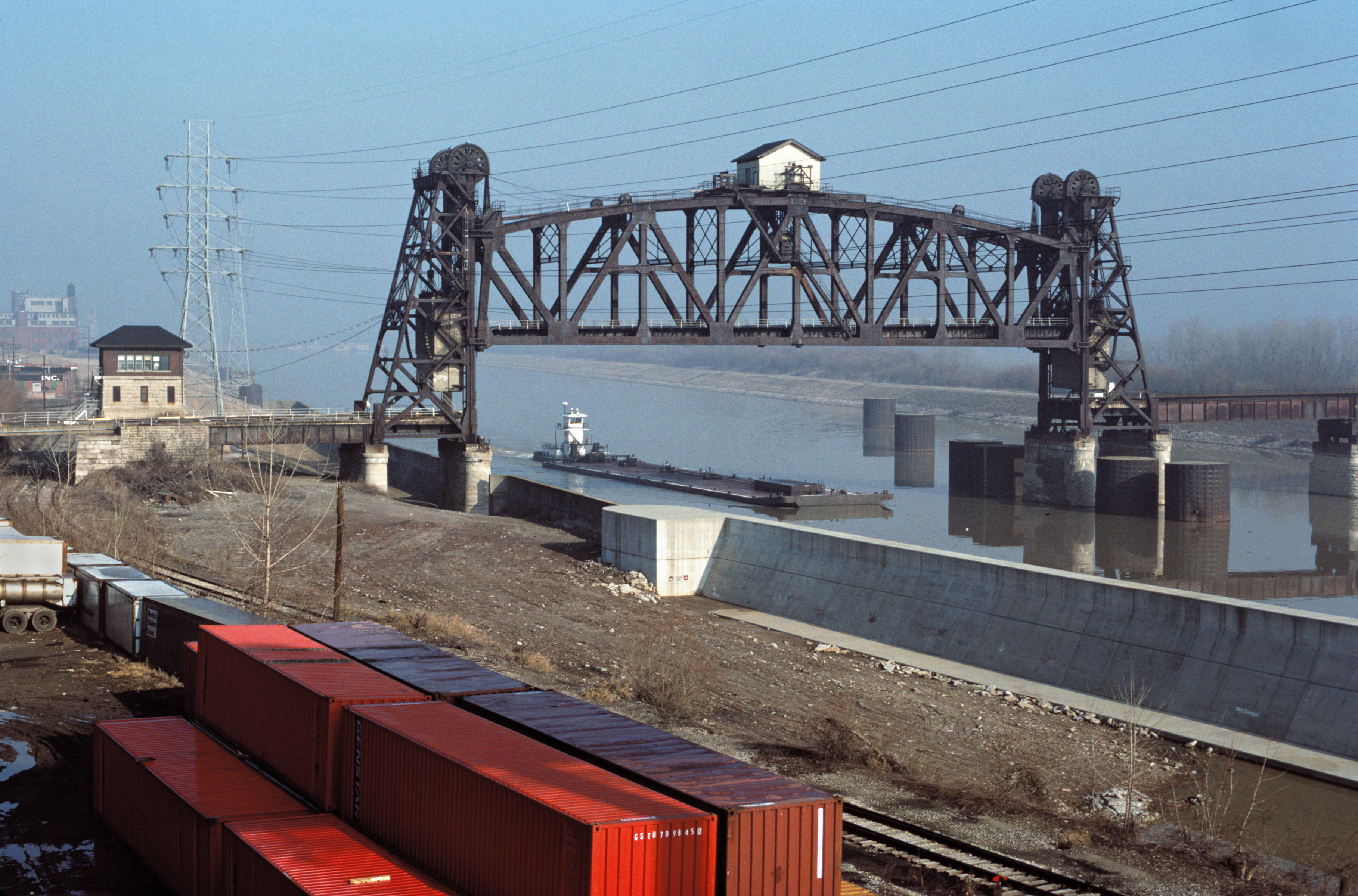 Lift span of Fourteenth Street Bridge over Portland Canal Ohio River at Louisville, Kentucky (Looking NNW from I-64 near 12th St.)